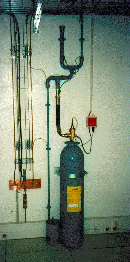 Halon fire suppression system in telecomms equipment room